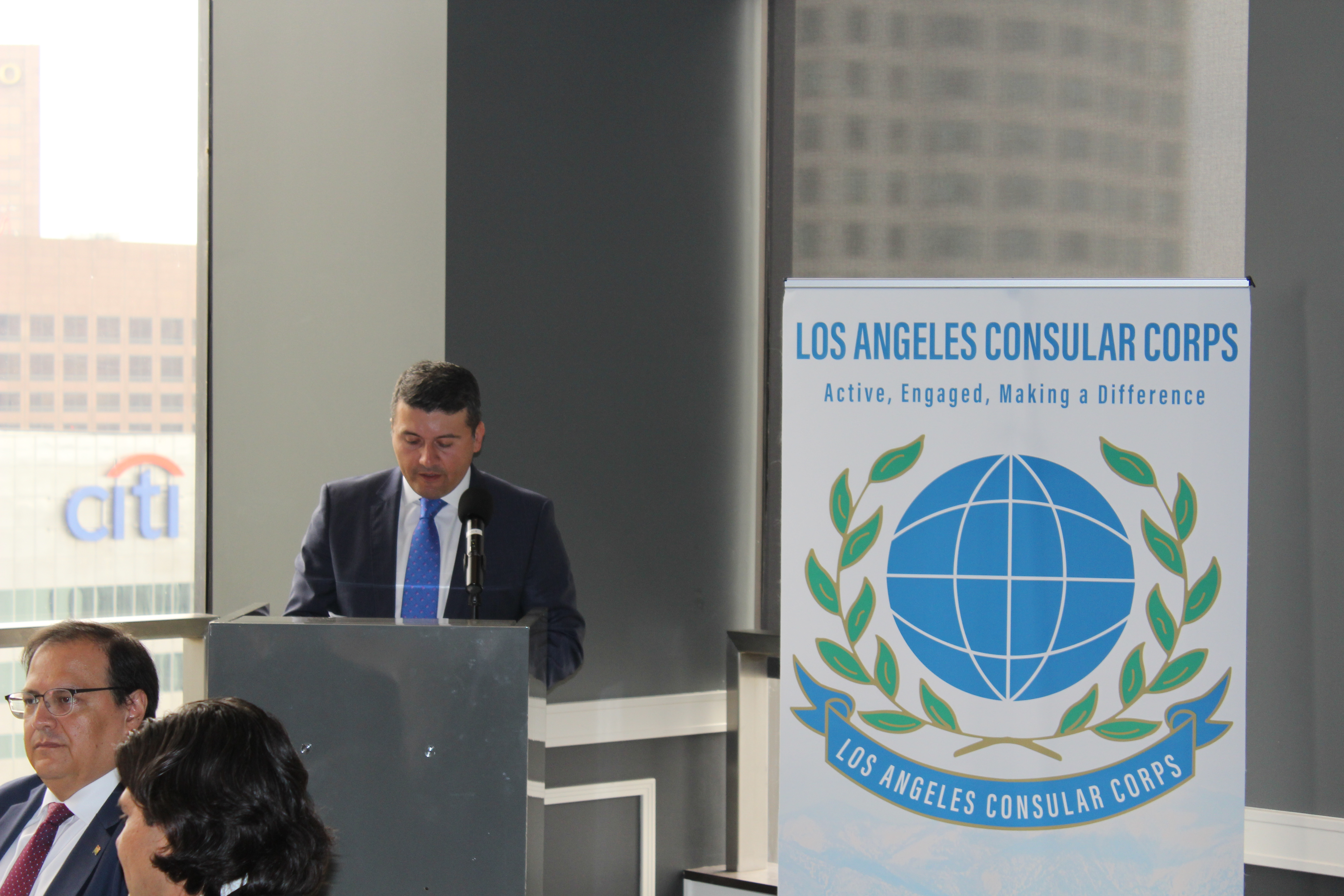 Dean of LACC the Honorable Consul General Nasimi Aghayev at a June 2019 meeting